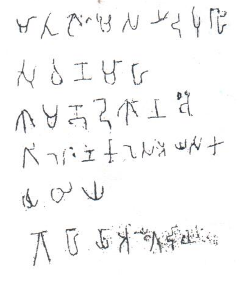 The 5th stone inscription excavated at Bhattiprolu believed to be from 3rd century BCE.